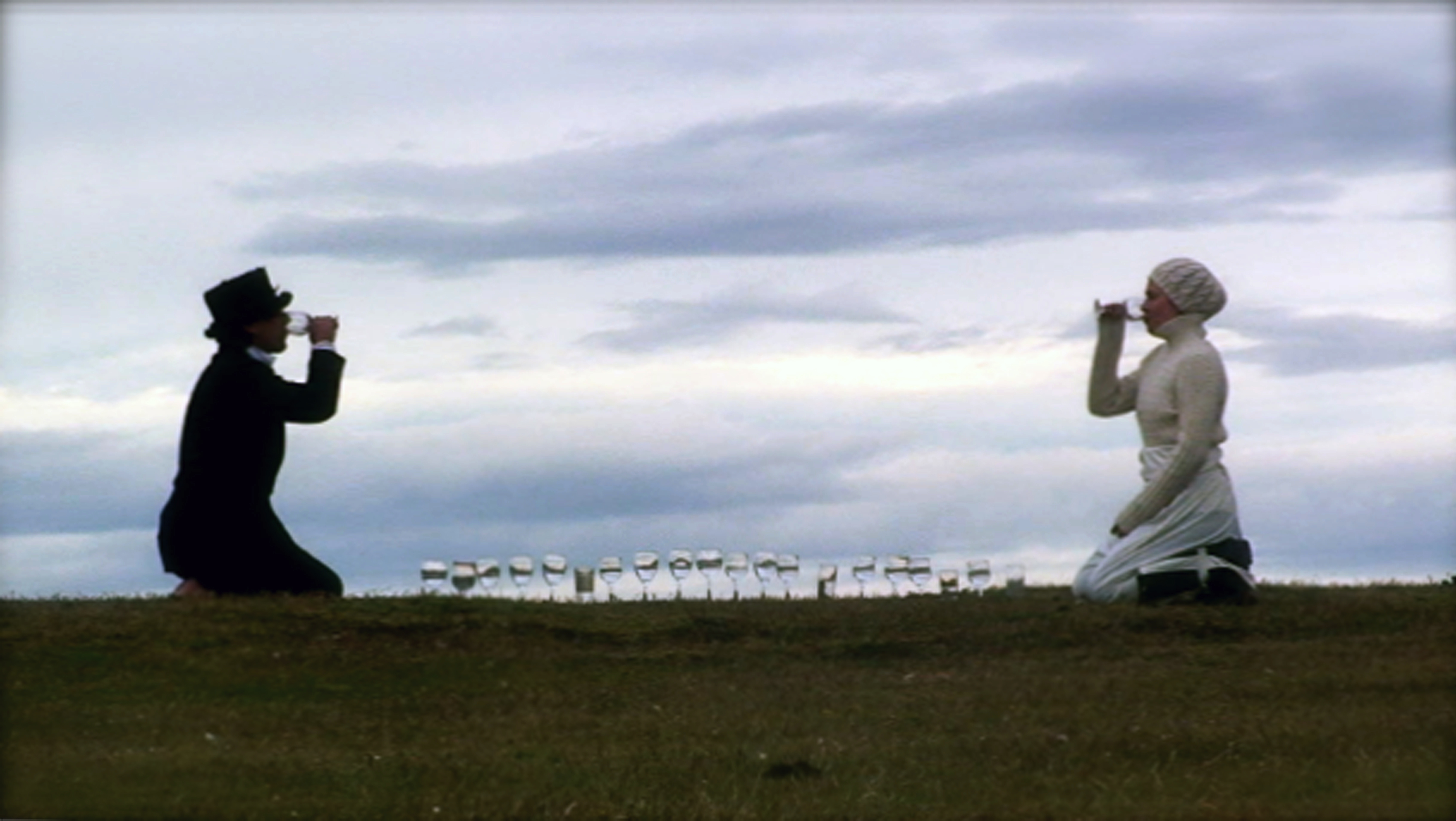 Movie Still from "sin fin - Performances at the End of the World", A VestAndPage production 2010. VestAndPage (left: Verena Stenke, right: Andrea Pagnes)